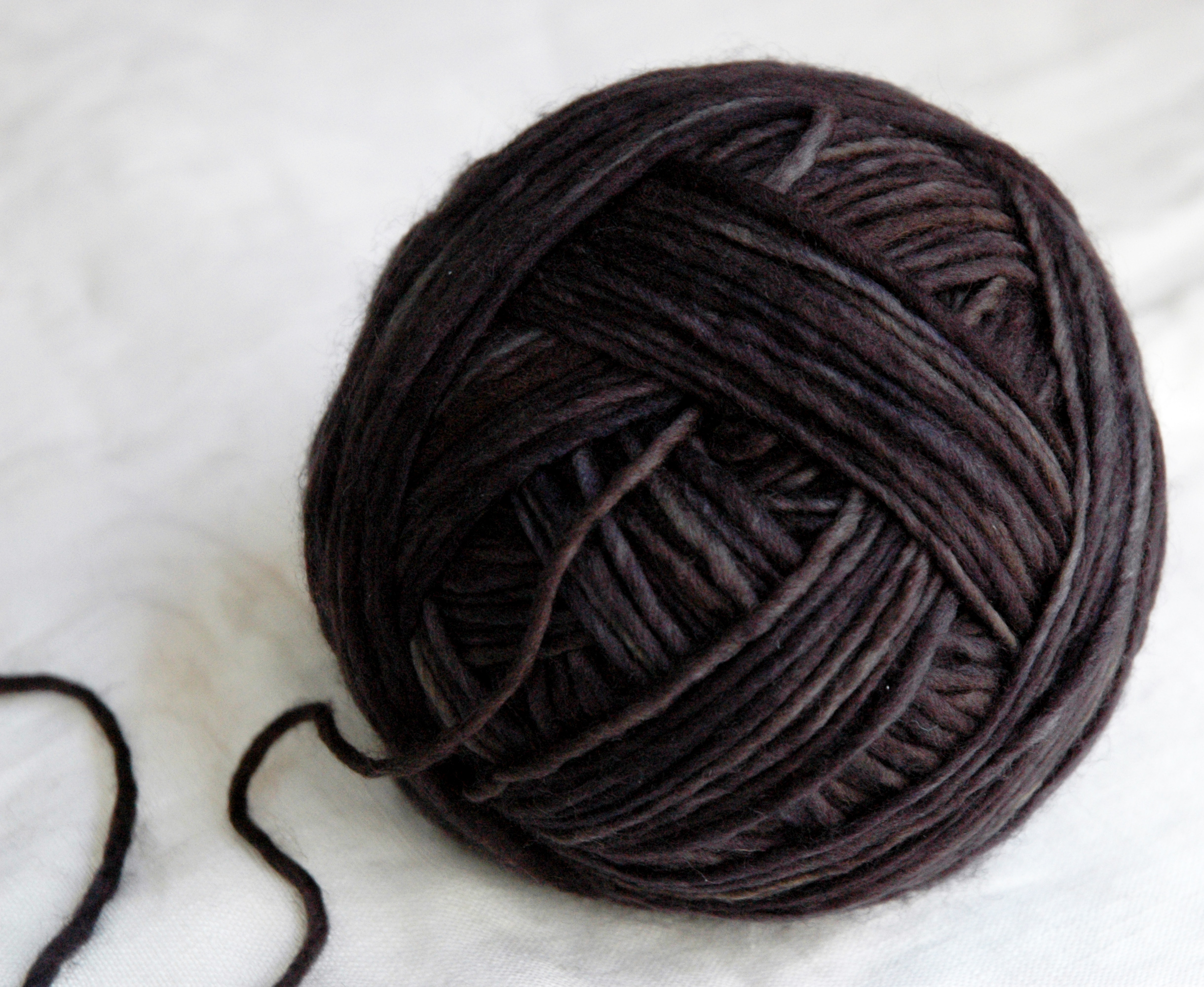 madelinetosh merino, in graphite